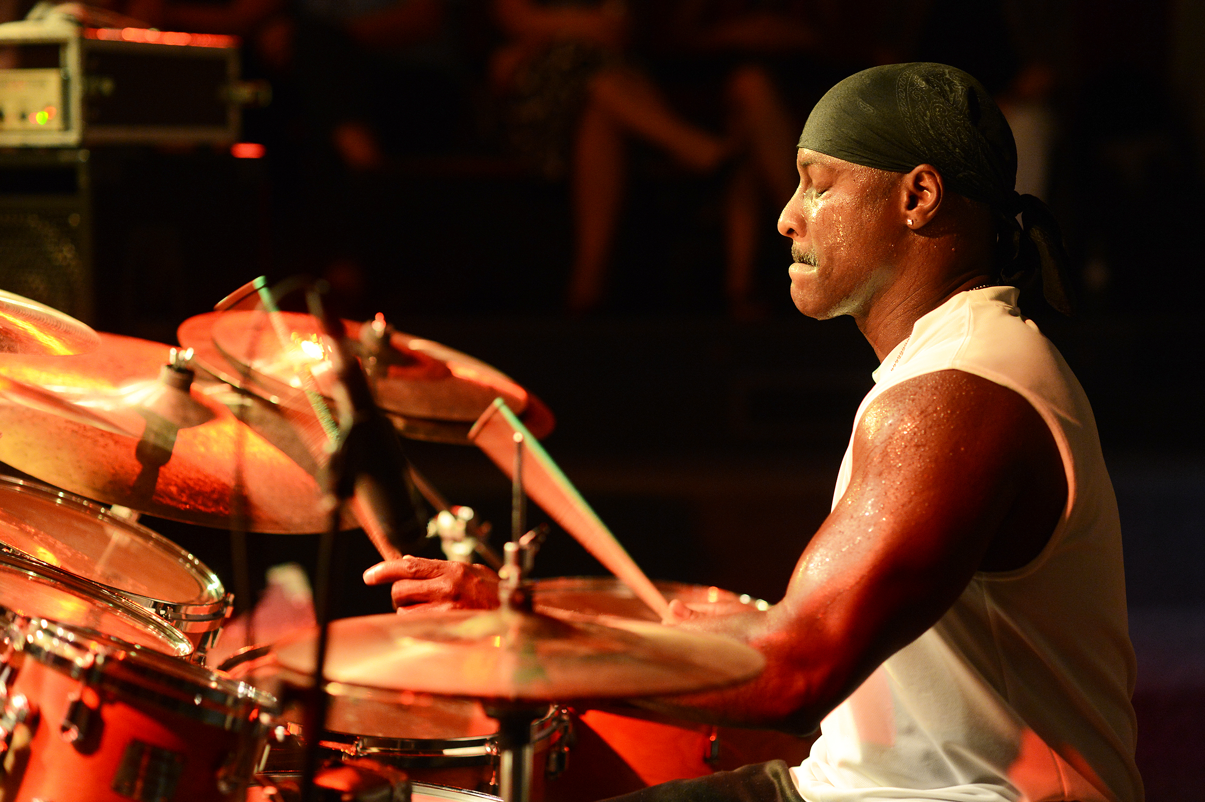 Sonny Emory in concert at Altes Pfandhaus in Cologne, Germany, August 1st, 2012